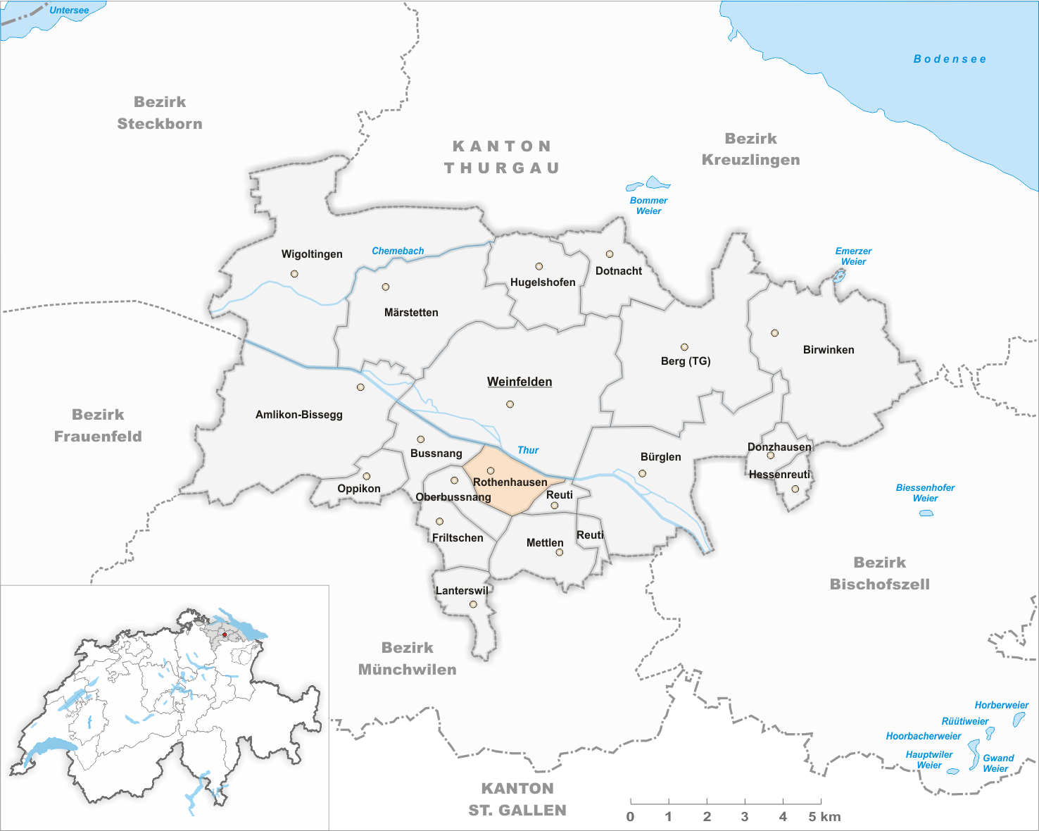 Municipality Rothenhausen